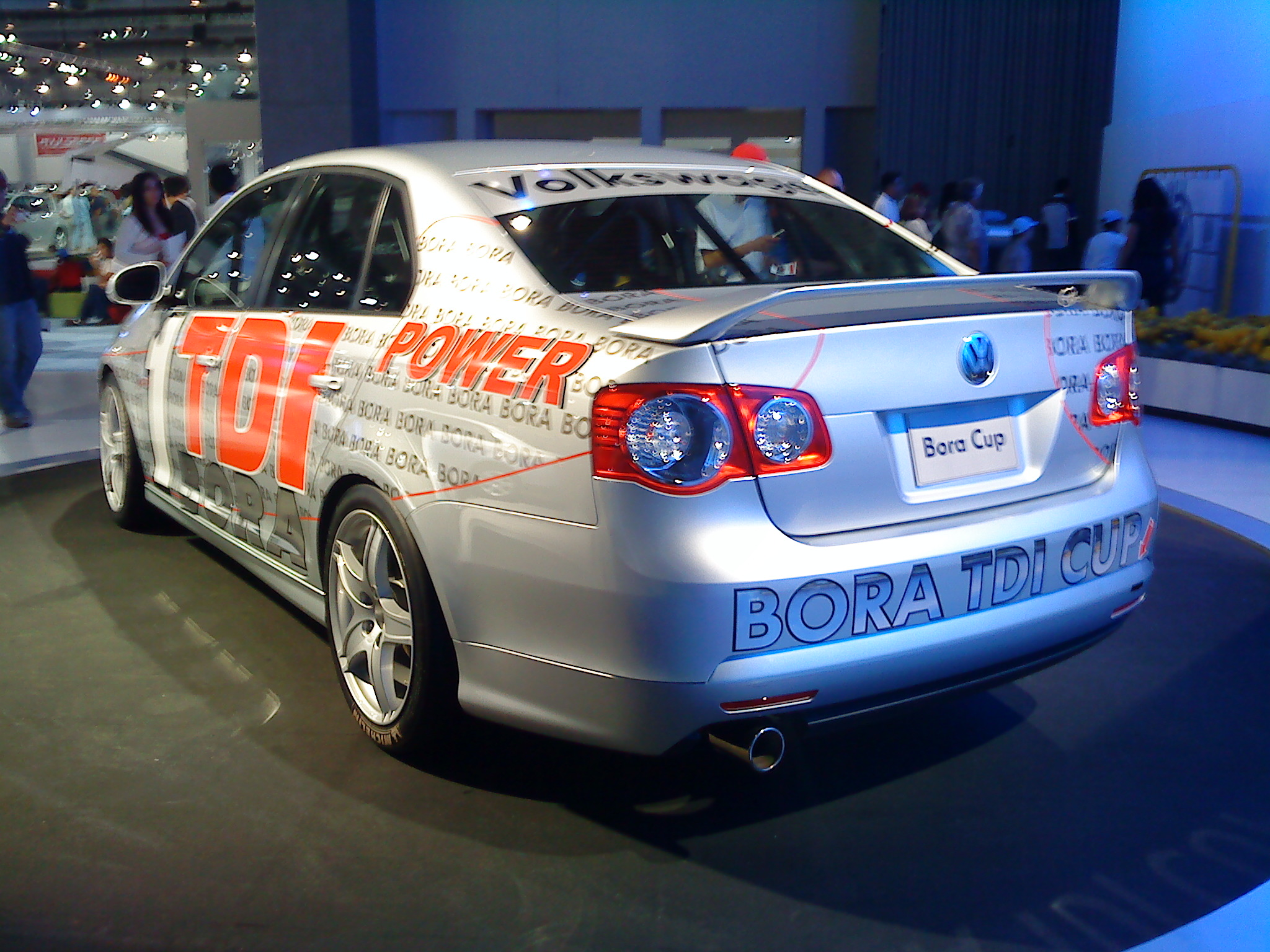 A Volkswagen Bora V TDI Cup at the 2008 SIAM.